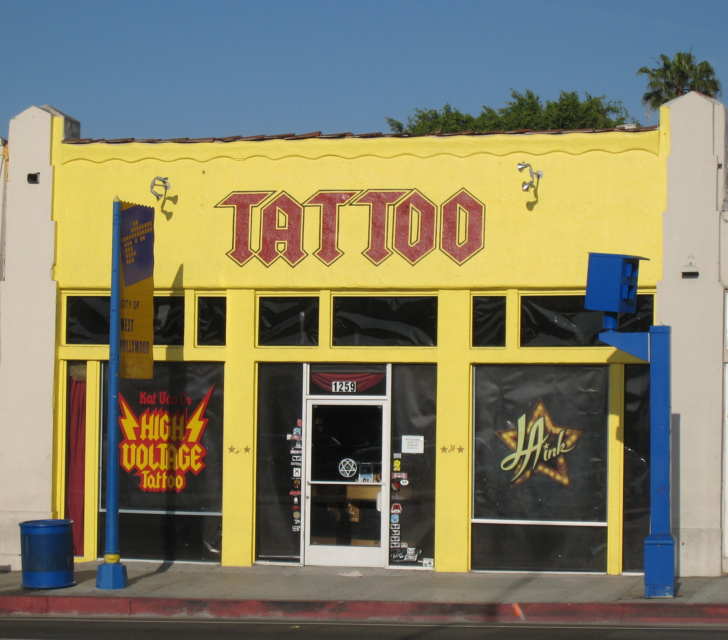 High Voltage Tattoo at the corner of La Brea and Fountain in West Hollywood, California